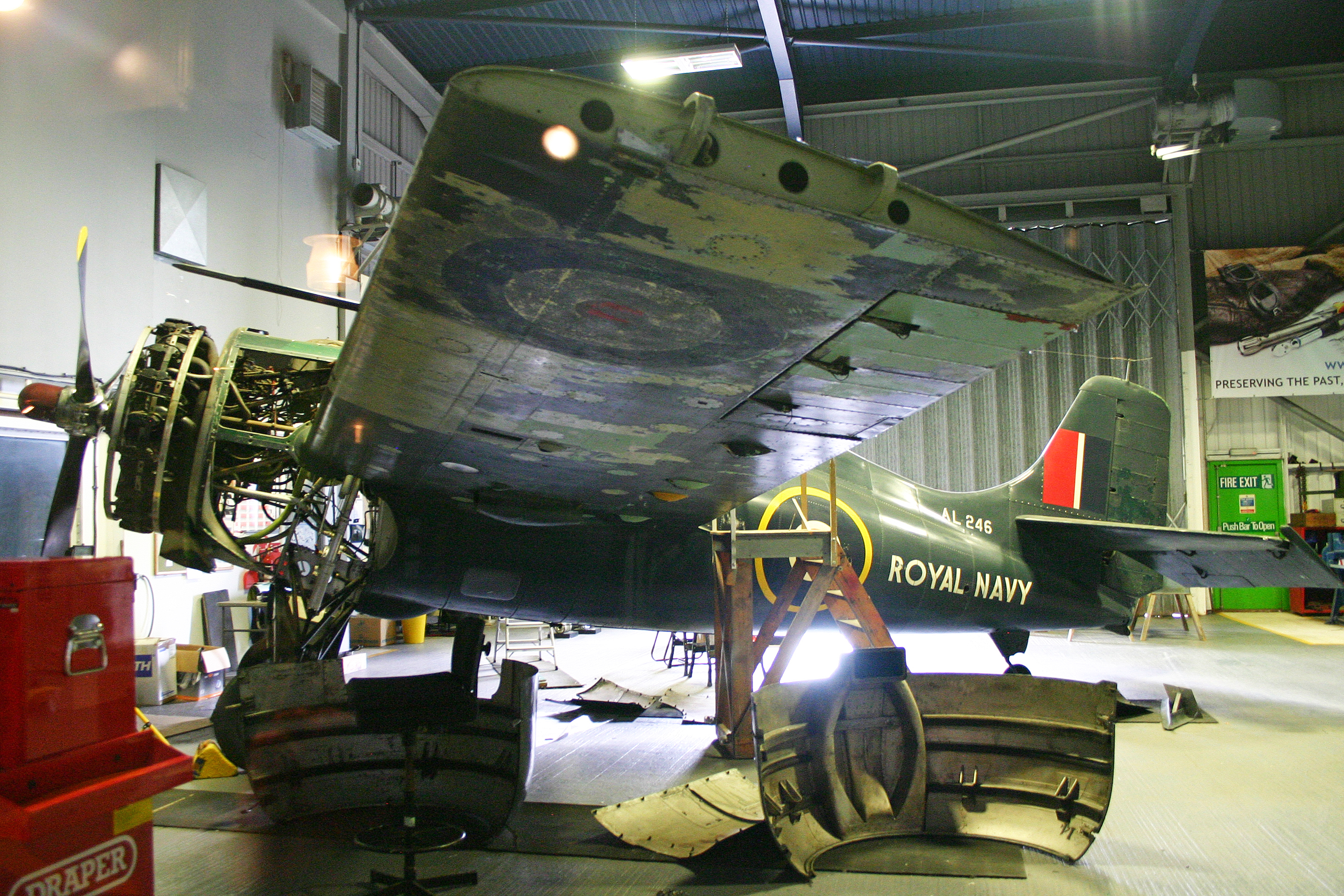 Built as an F4F-3 Wildcat. msn 656. Undergoing sympathetic restoration. Visible from a viewing window within the main museum. FAA Museum, Yeovilton. 15-6-2011